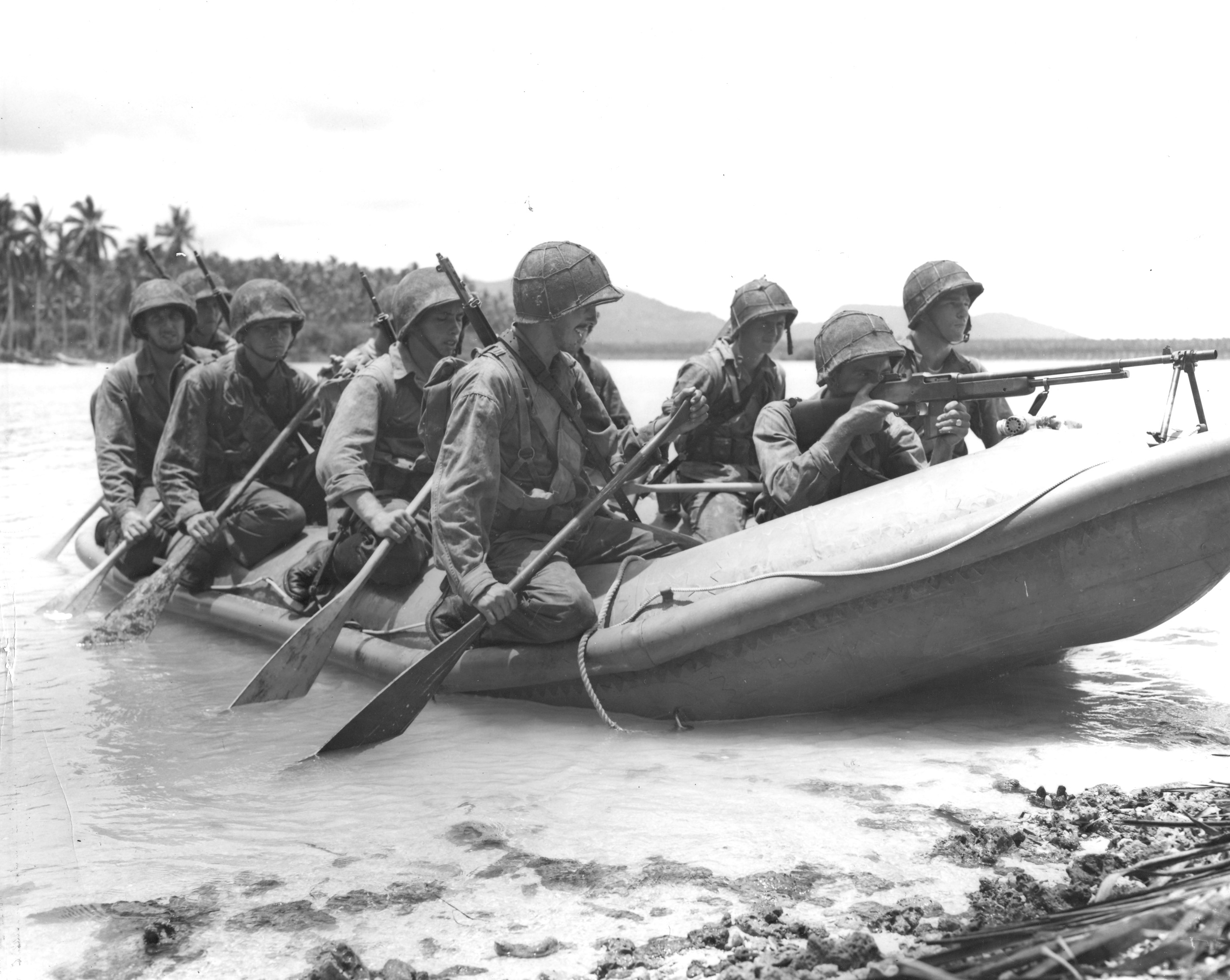 A BAR man in the bow of the rubber landing craft provides covering fire as a 10-man boat crew of Marine Raiders reaches the undefended beach of Pavuvu in the Russell Islands during Operation Cleanslate. USMC ID #: 54765